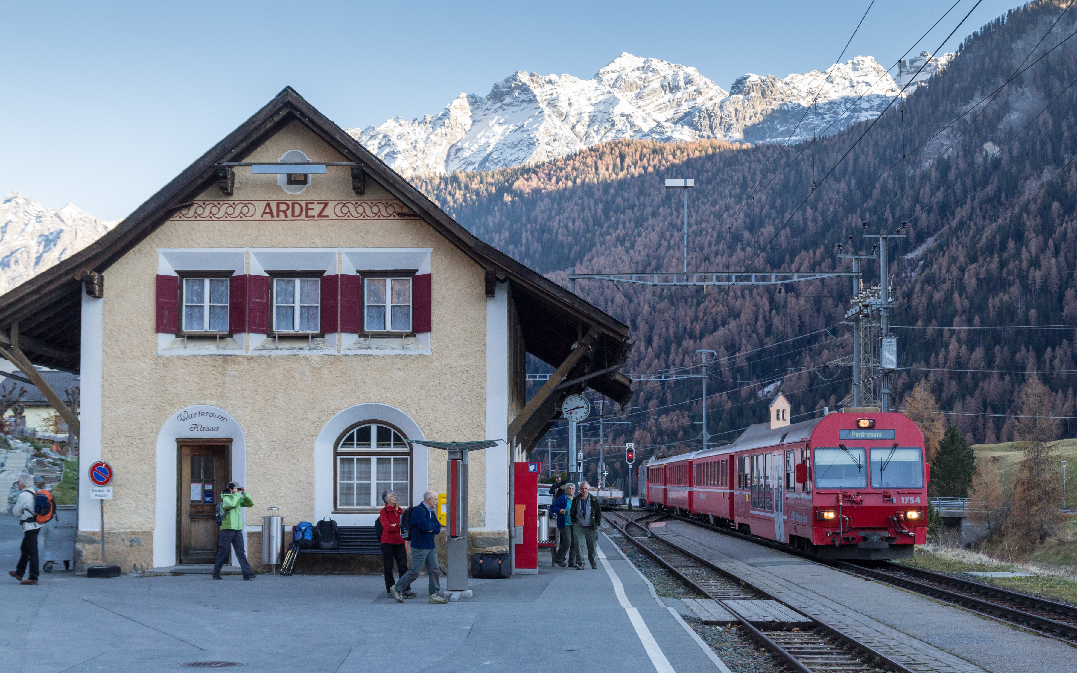 Ardez railway station, Lower Engadine, Switzerland